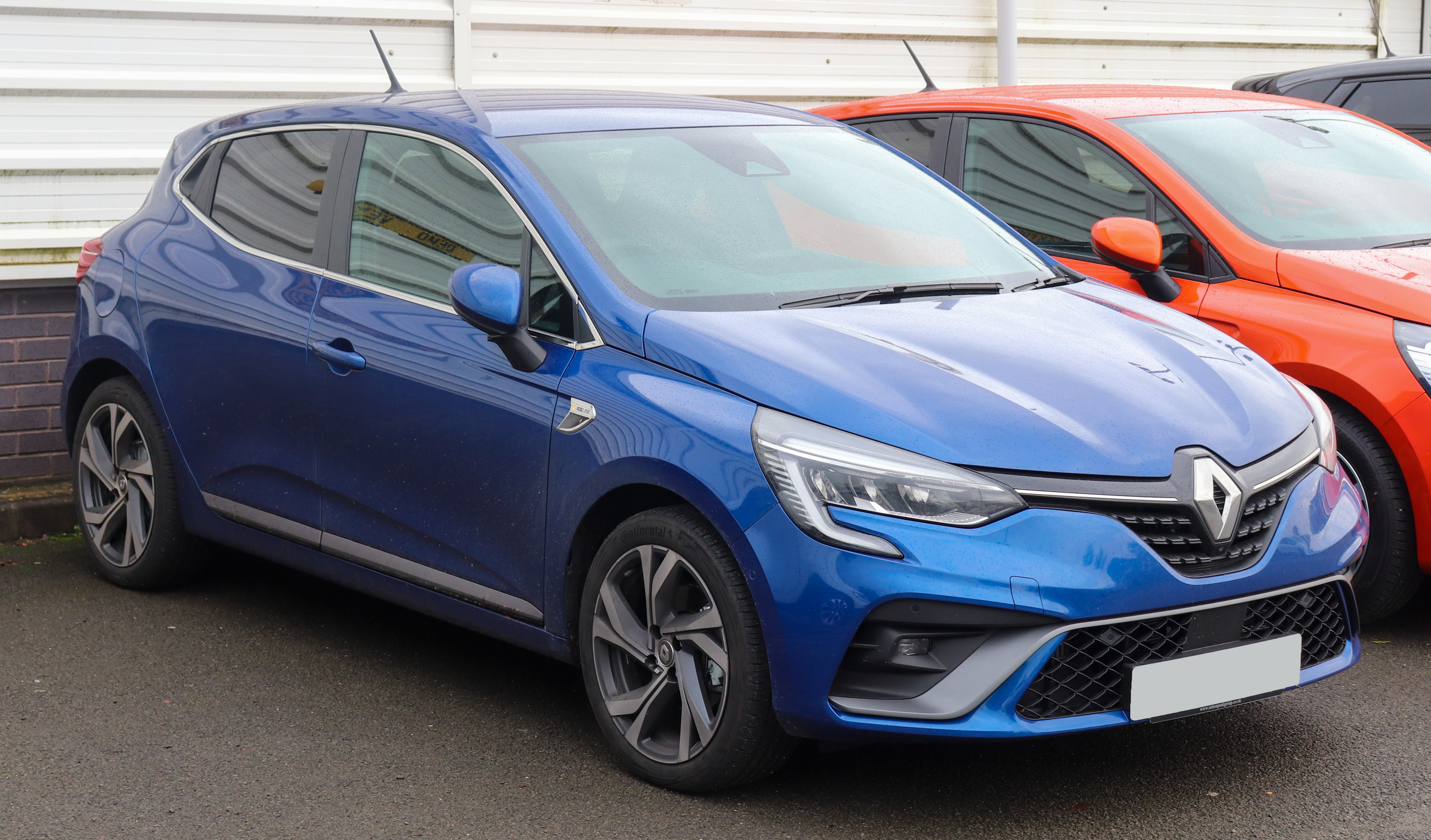 2019 Renault Clio RS Line TCE Automatic 1.3 Taken in Leamington Spa